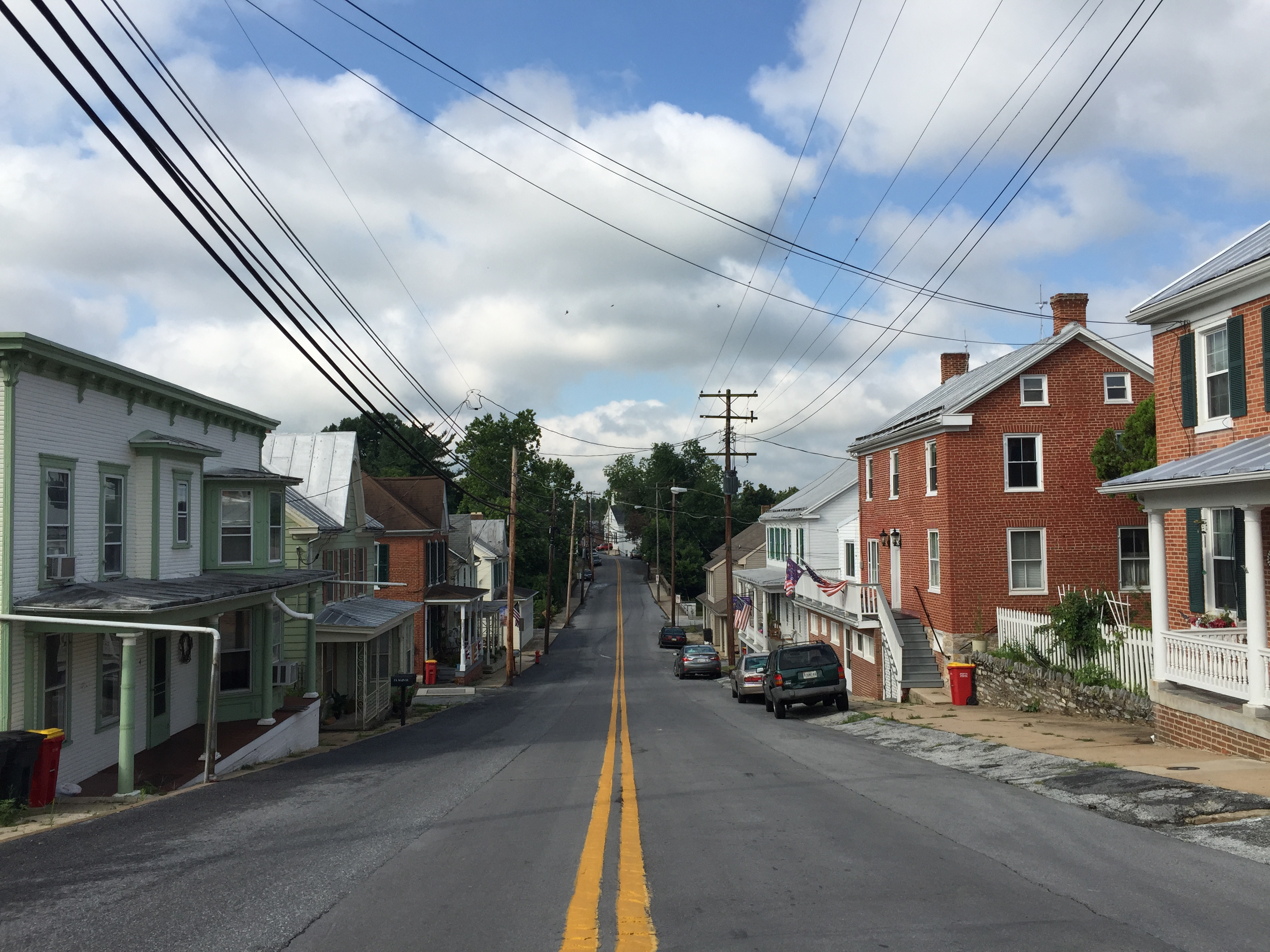 View west along Maryland State Route 845 (Main Street) between Park Lane and Antietam Drive in Keedysville, Washington County, Maryland